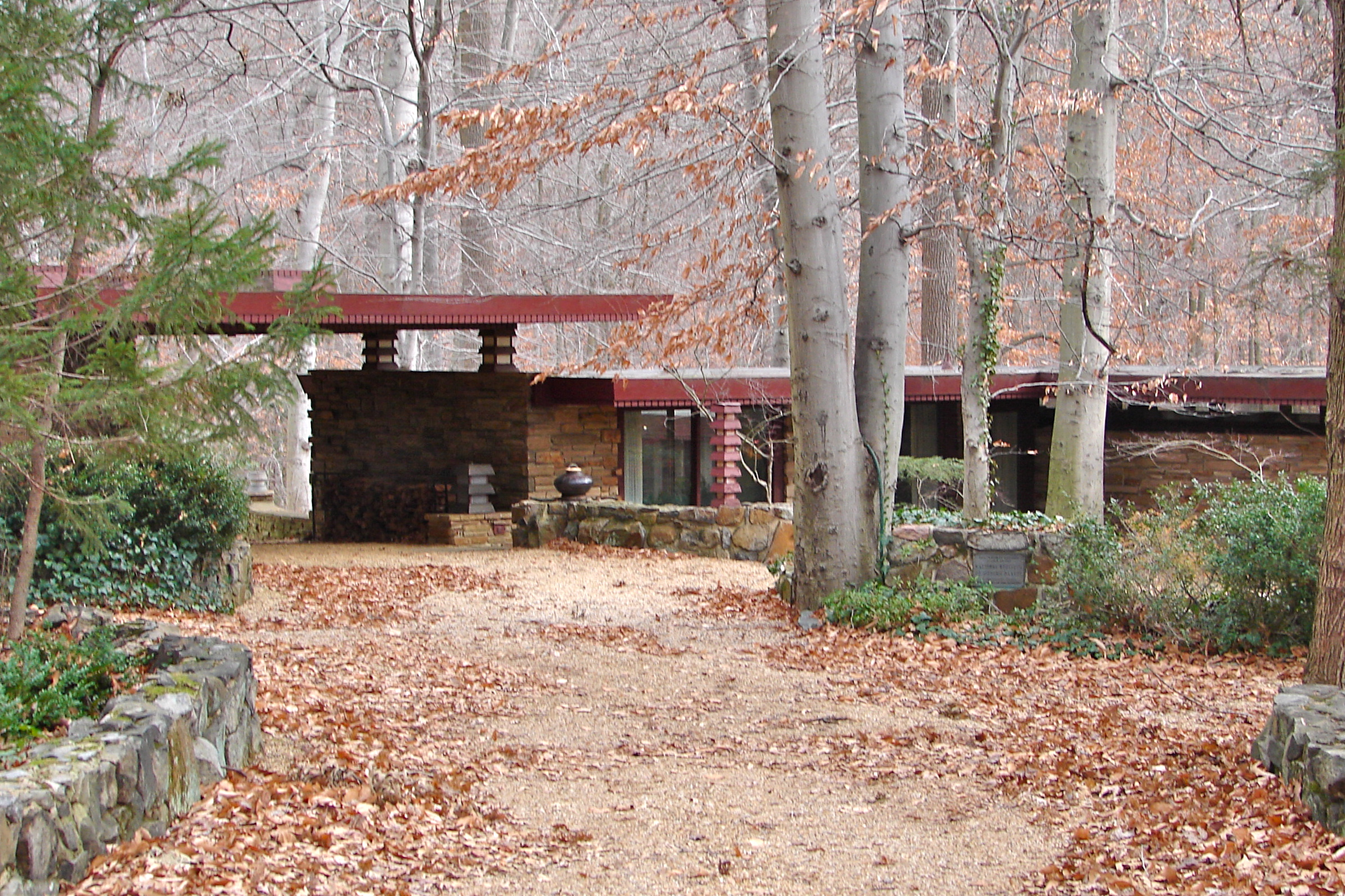 "Laurel" a house designed by Frank Lloyd Wright in the Usonian style. On the NRHP since December 4, 1974. This is the only FLW building in Delaware